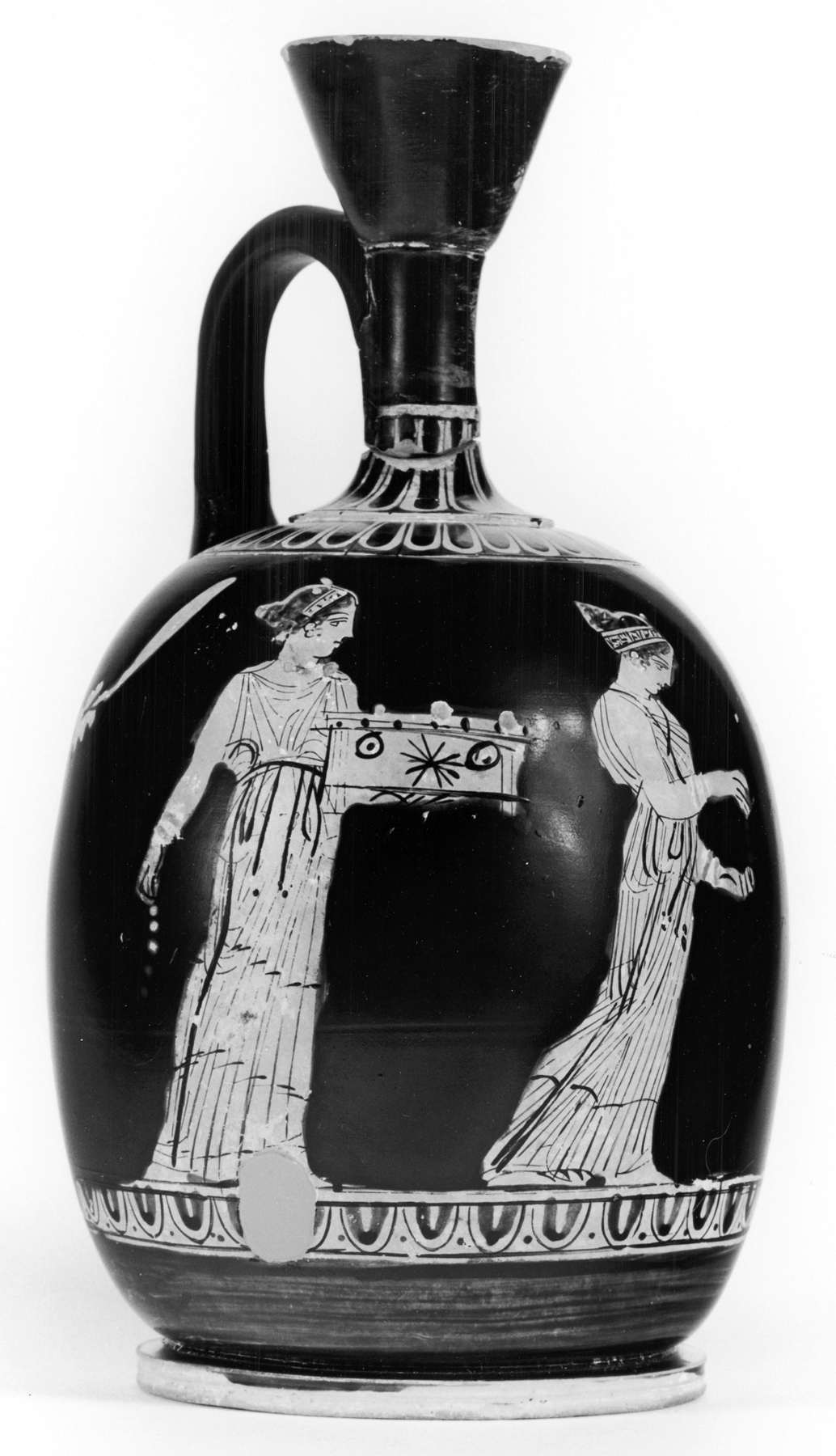 This squat lekythos depicts Eutychia, Eunomia, and Paidia. On the left Eutychia stands frontally, looking right. She holds a chest on her left forearm at waist level; her right hand hangs down by her side holding a necklace. She wears a girded peplos, diadem, necklace, earring, and bracelets. Next is Eunomia who walks solemnly to the right, holding a necklace between her outstretched hands. She wears a girded peplos, necklace, bracelets, earring, diadem and a decorated band which holds her hair in place. On the right Paidia stands turned partially to the left, holding a chest. She wears a girded peplos, necklace, earring, and bracelets; her hair is tied in back. A diphros with a thick, patterned cushion stands beside her. The personifications on this vase, from left to right are to be understood as Good Luck, Good Order, and Games and Play. They are depicted as normal Athenian women and do nothing which might associate their actions with the literal meanings of their names.